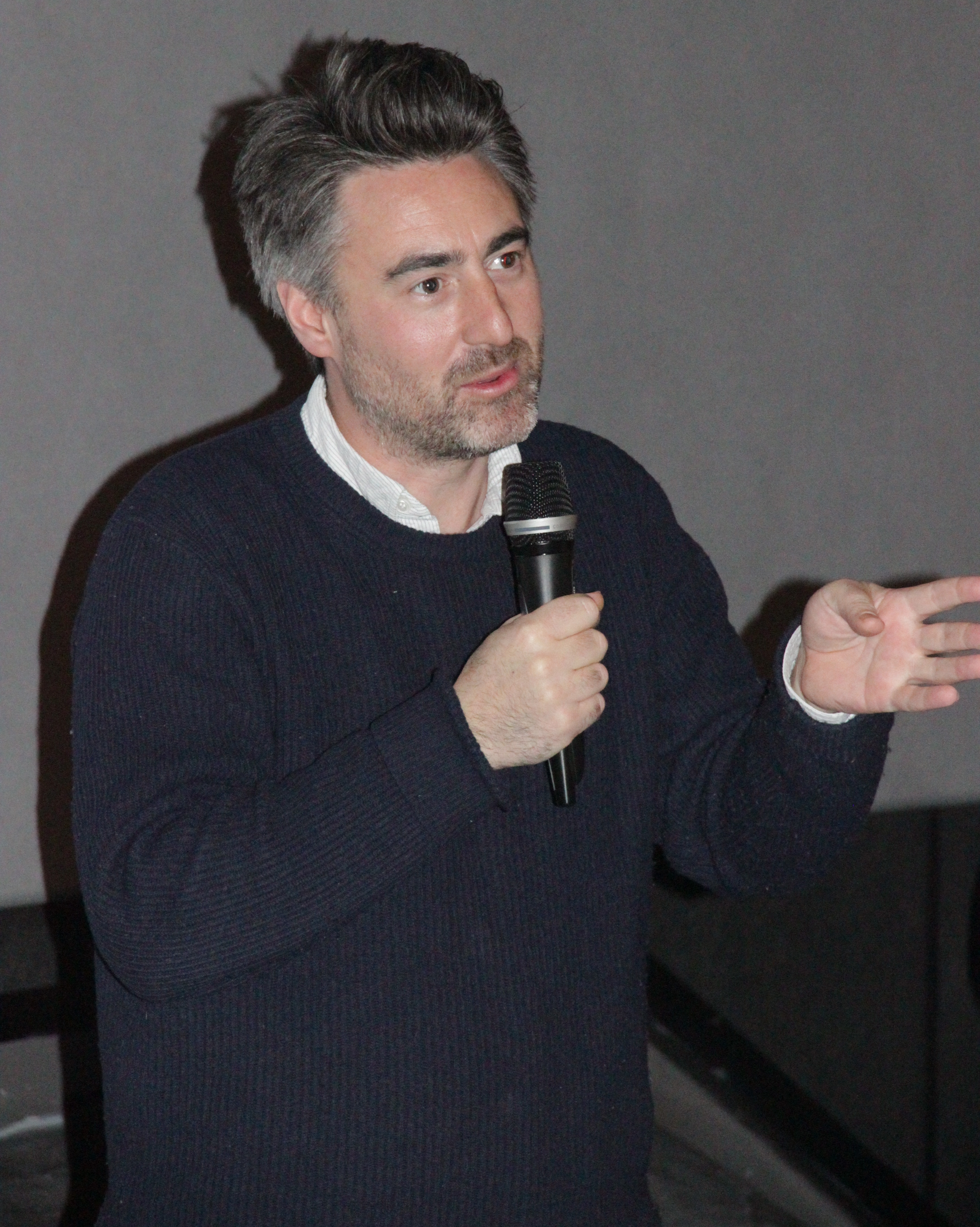 William Oldroyd in February 2017, at the Göteborg Film Festival.